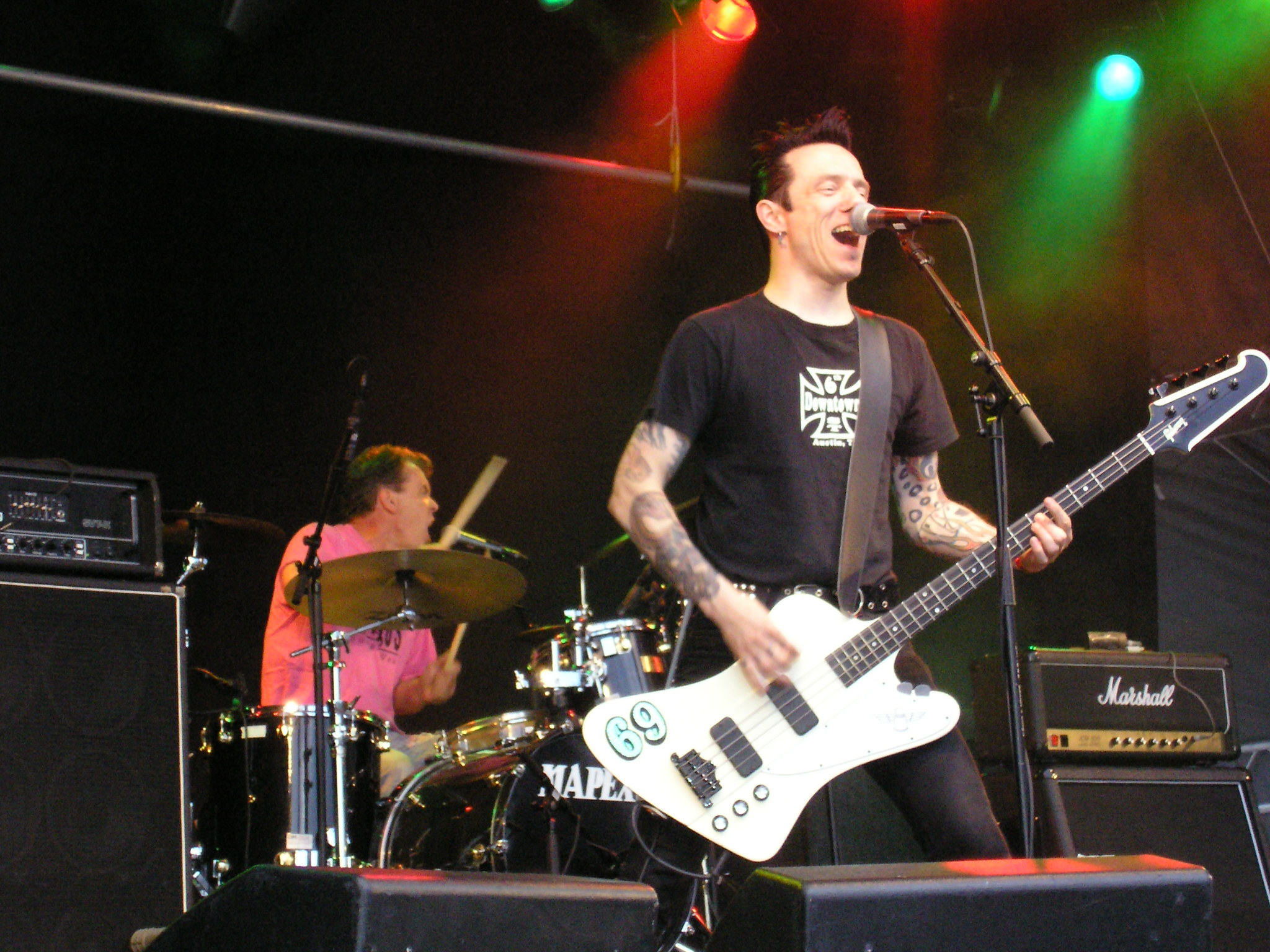 The Vibrators at Augustibuller 2007.